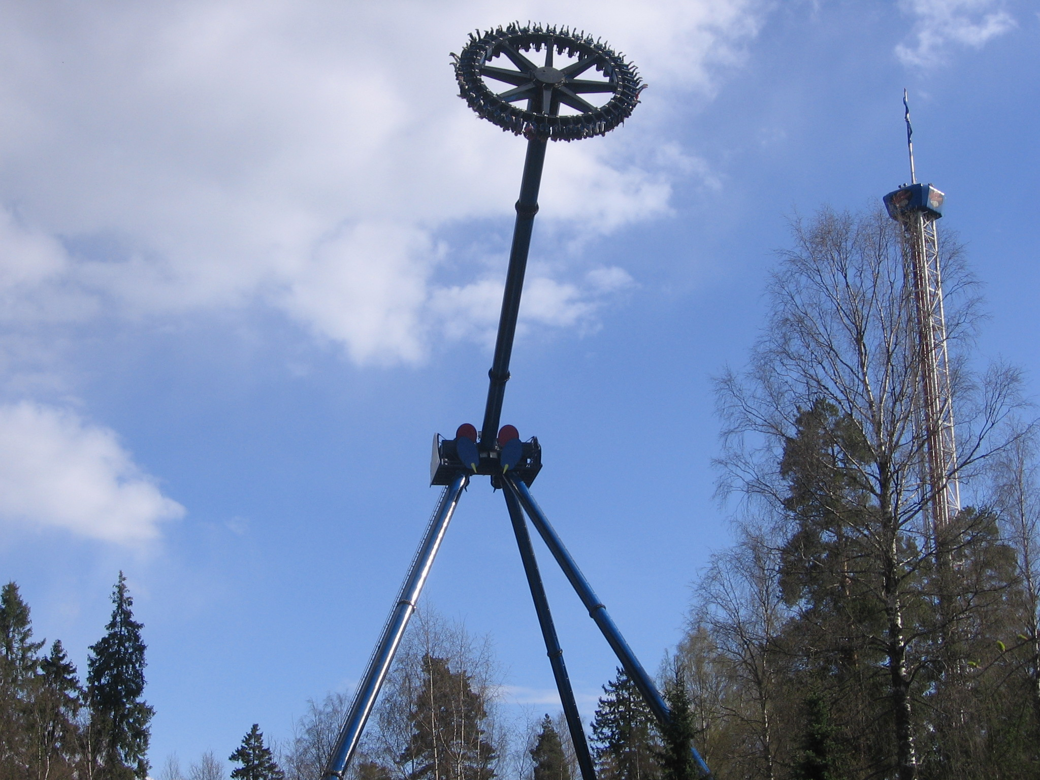 SpinSpider in TusenFryd, Oslo,Norway